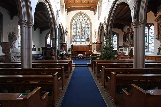 St Olave, Seething Lane, London EC3 - East end